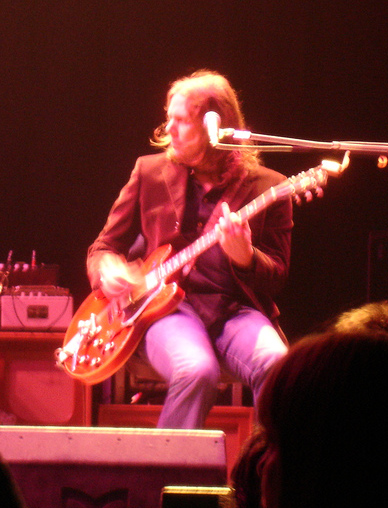 Rich Robinson performing with The Black Crowes at the Louisville Palace in Louisville, Kentucky, on October 23, 2007.